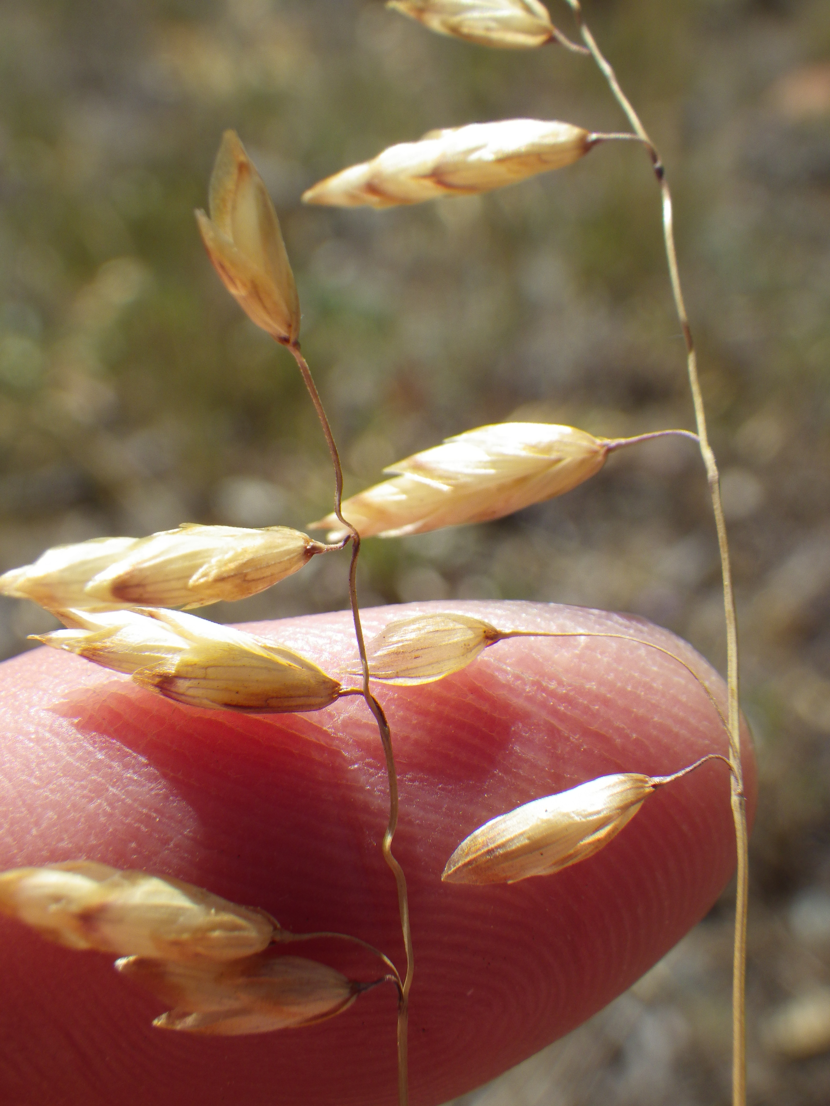 A signature of the sagebrush steppe in the Grand Teton National Park is the abundance of the genus Melica, including Melica bulbosa and Melica spectabilis. The spikelets are not held erect in this species but rather are arranged in secund fashion.